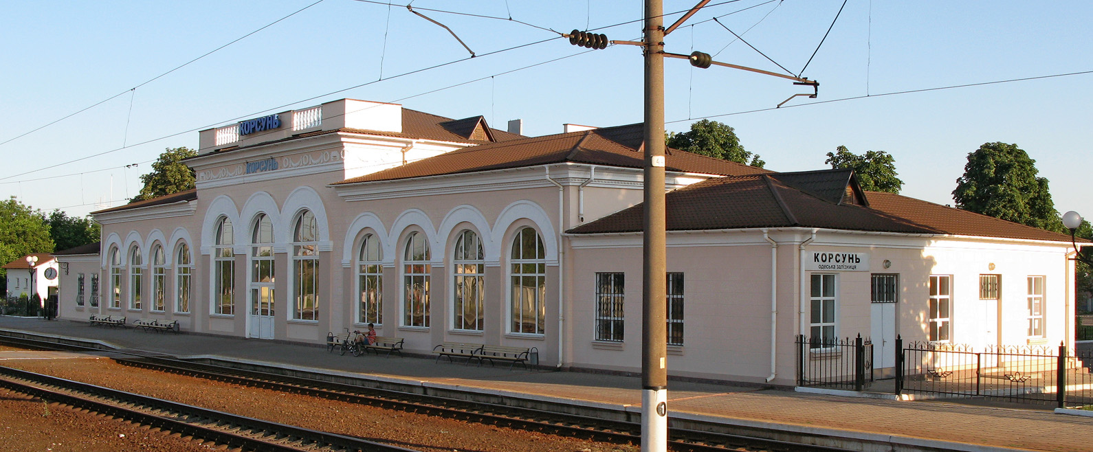 Korsun railway station, Odesa Railway, Ukraine